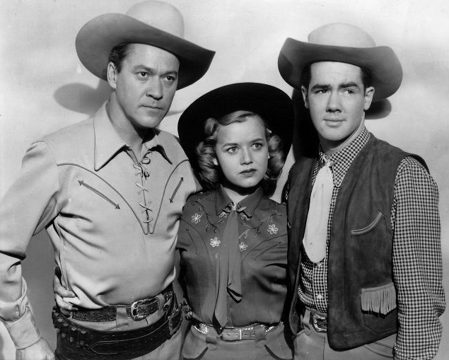 Photo of the cast of the television program Sky King. From left: Kirby Grant as "Sky" King, Gloria Winters as his niece, Penny, and Ron Hagerthy as his nephew, Clipper.